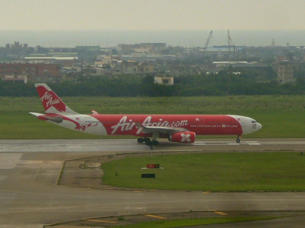 Air Asia X Airbus A330-300